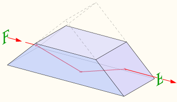 Dove prism